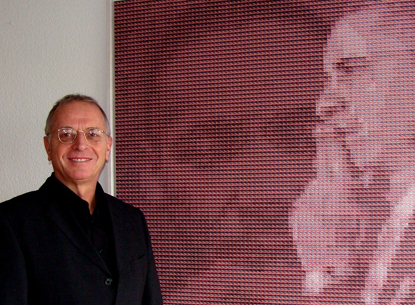 Theo Hues and his picture "American History"